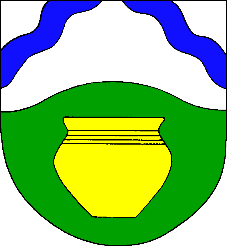 Coat of arms of the municipality Schwissel in Schleswig-Holstein, Germany.